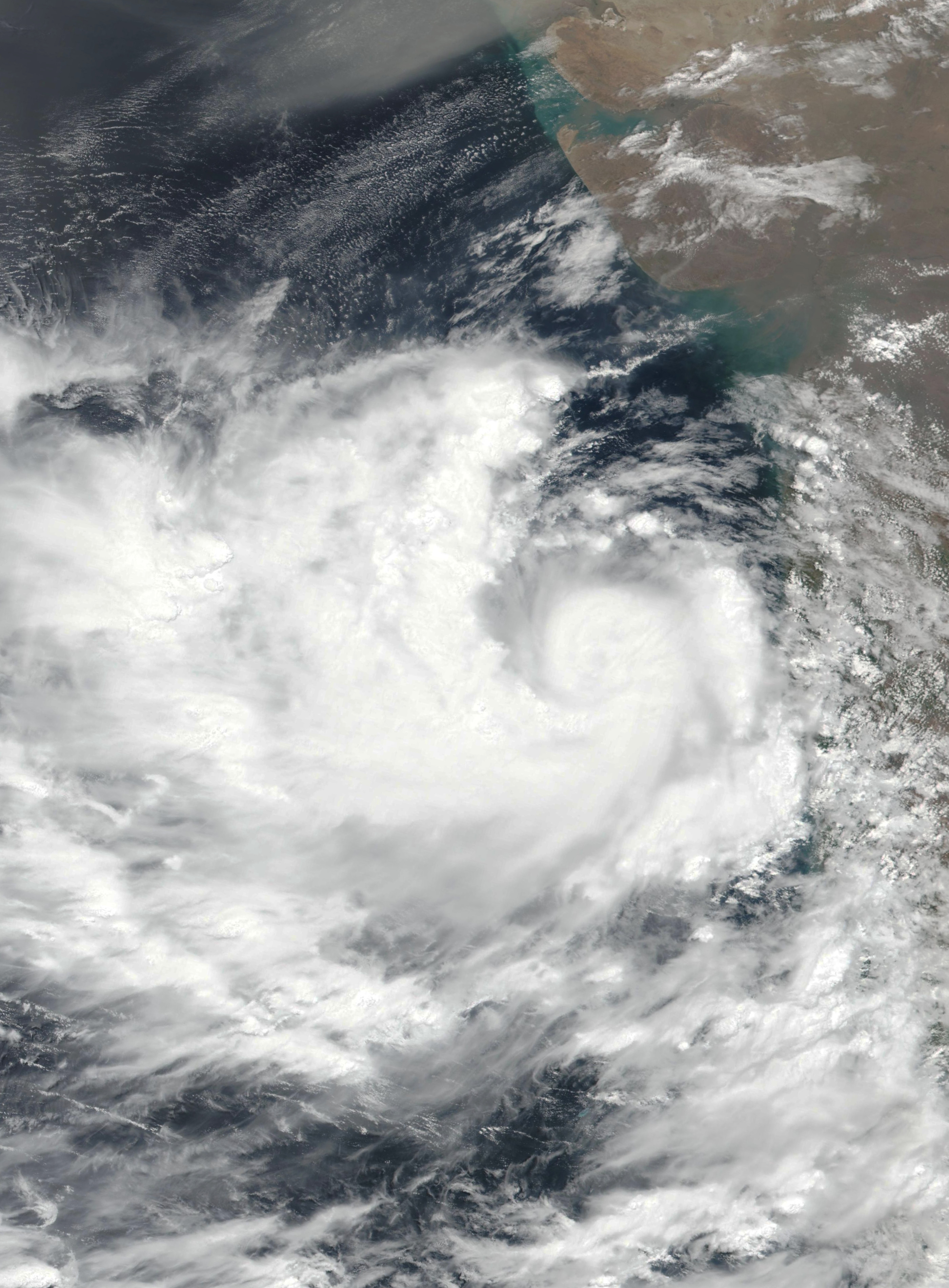 Cyclonic Storm Vayu on June 11, 2019